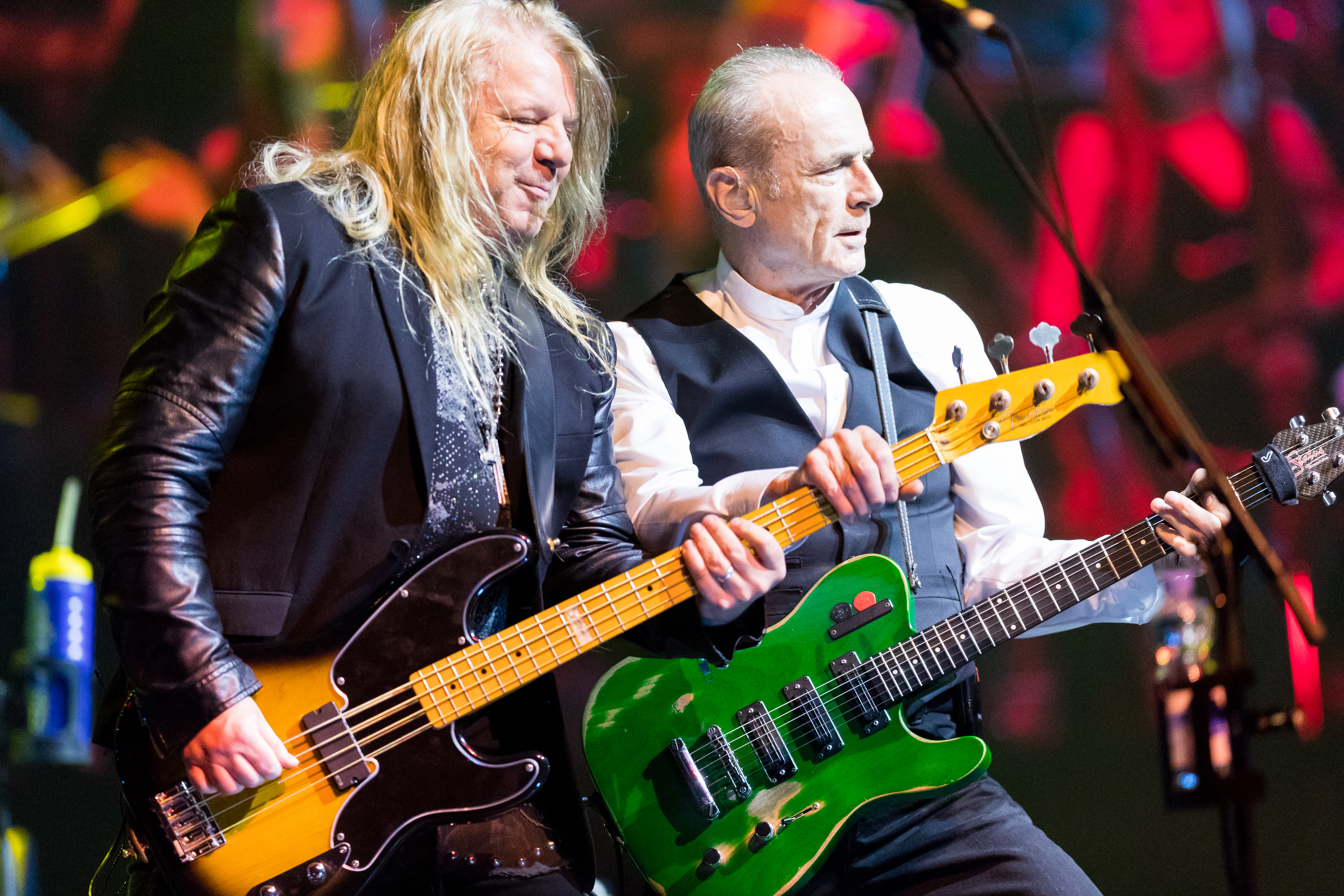 during Rock Meets Classic at Jahrhunderthalle, Frankfurt, Hessen, Germany on 2018-04-12, Photo: Sven Mandel